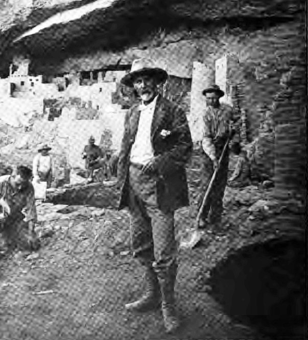 Photograph of American archaelogist and director of Smithsonian Bureau of American Ethnology J. Walter Fewkes.